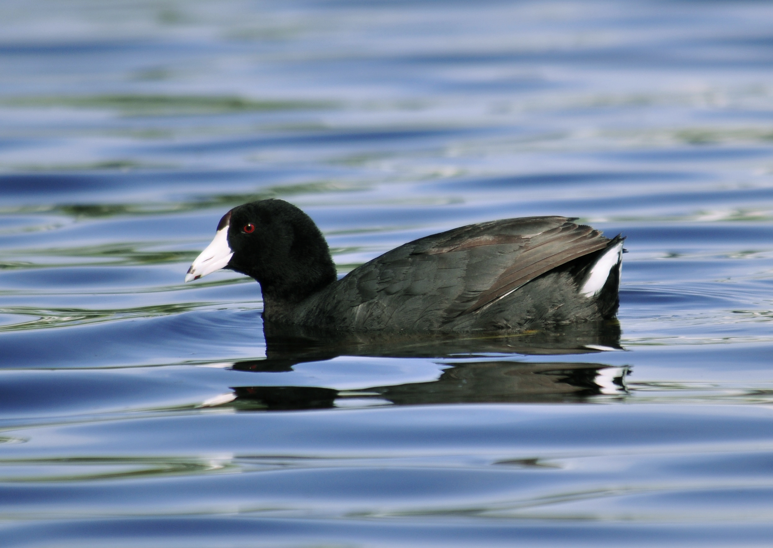 American coot in a lake in Edmonton, Alberta, June 2013.